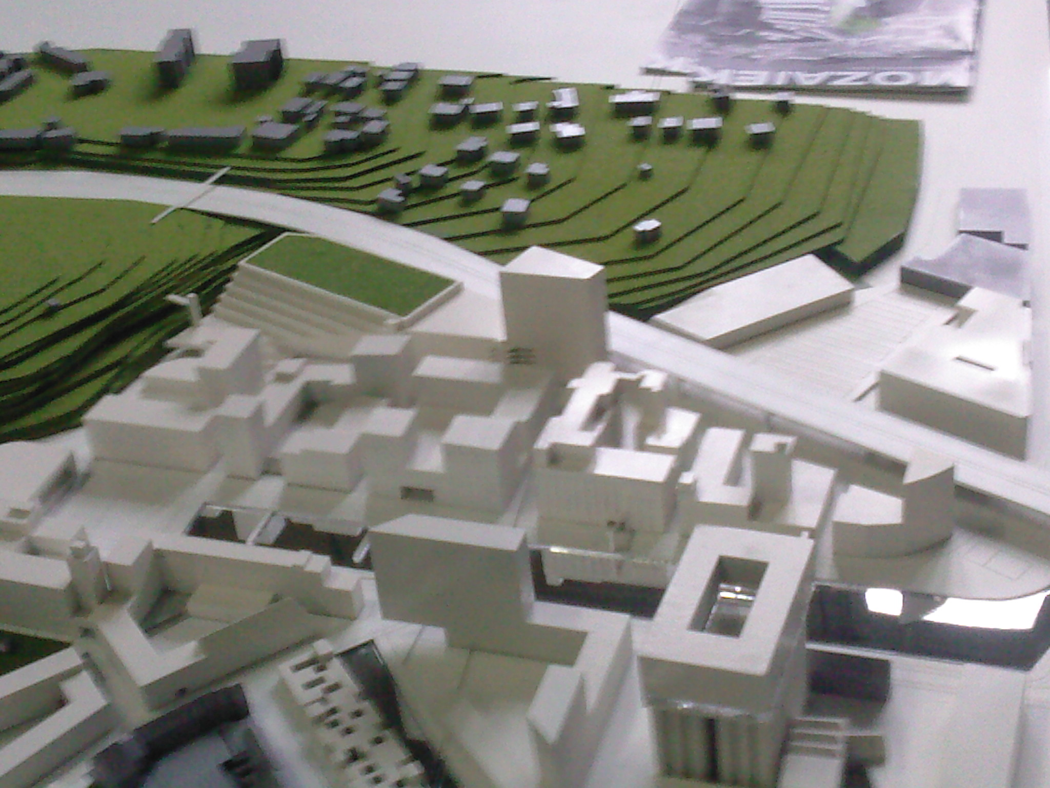 Maquette of Vaartkom renovation project